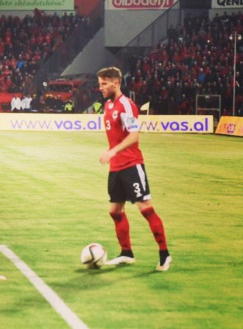 Emir Lenjani on international duty with Albania in 2015.